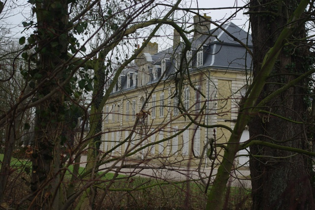 salperwick castle